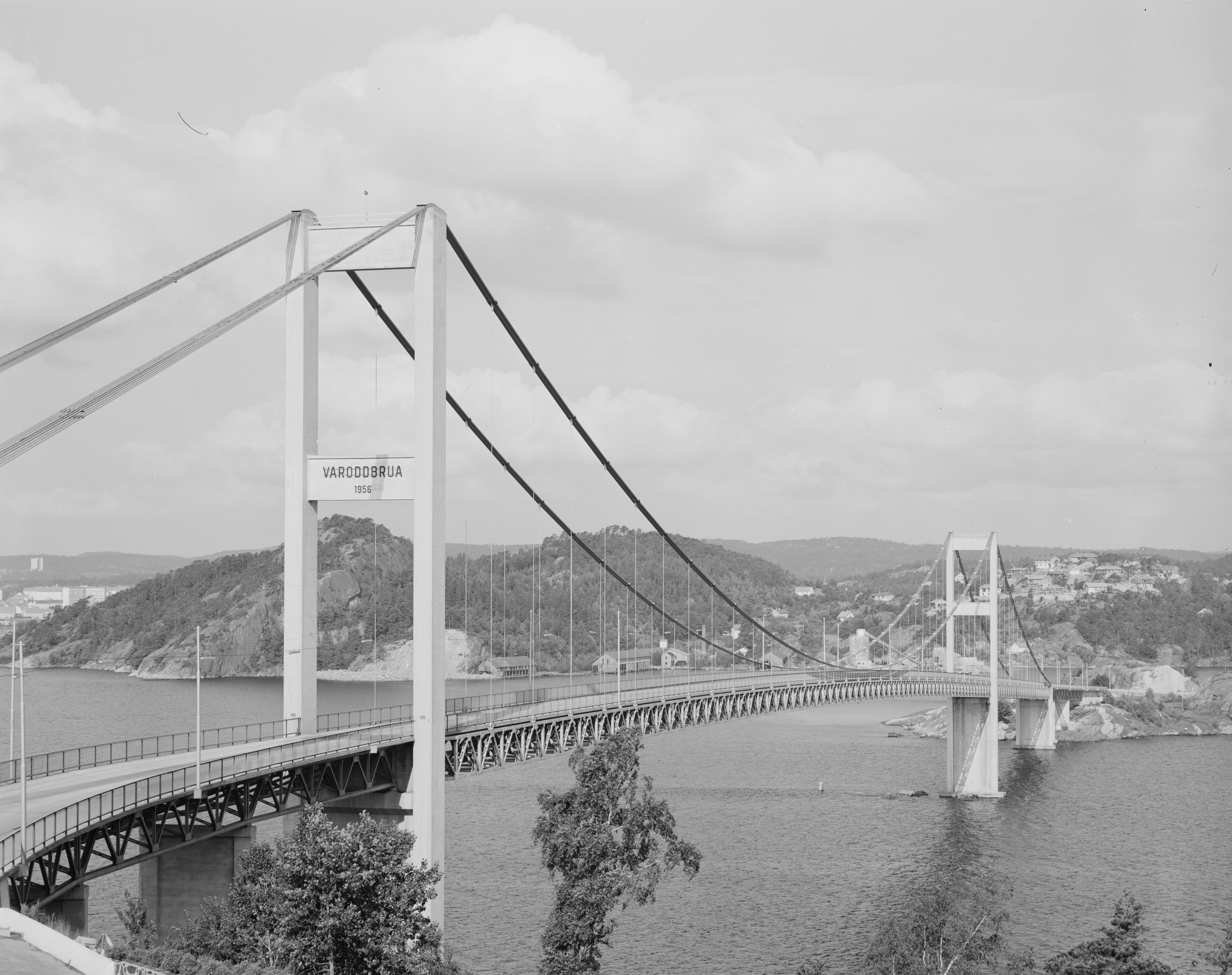 Varoddbrua (1962)